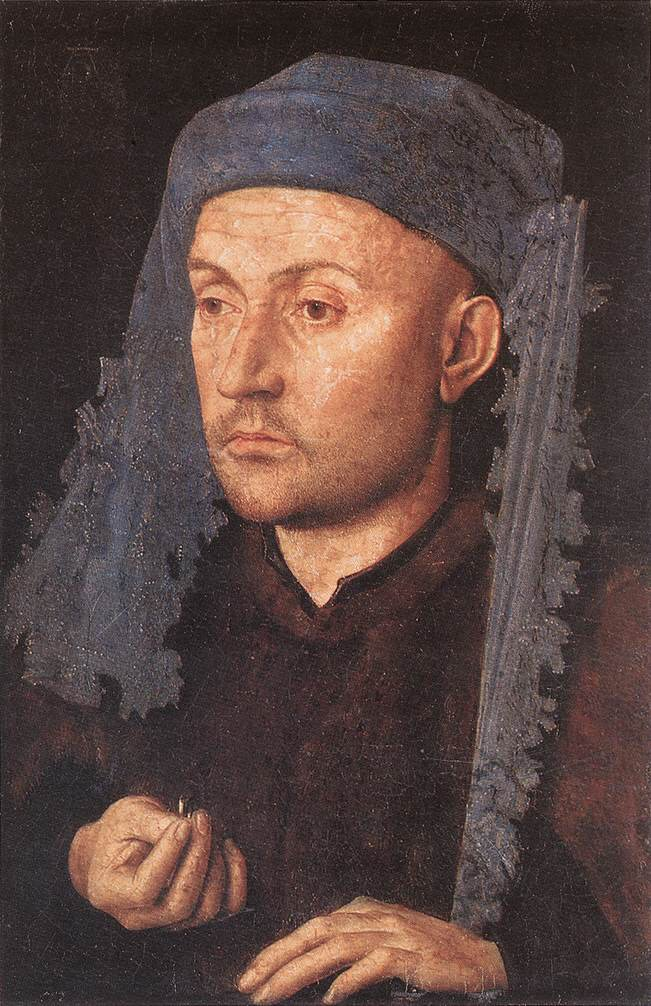 non authentic signature of Albrecht Dürer top left